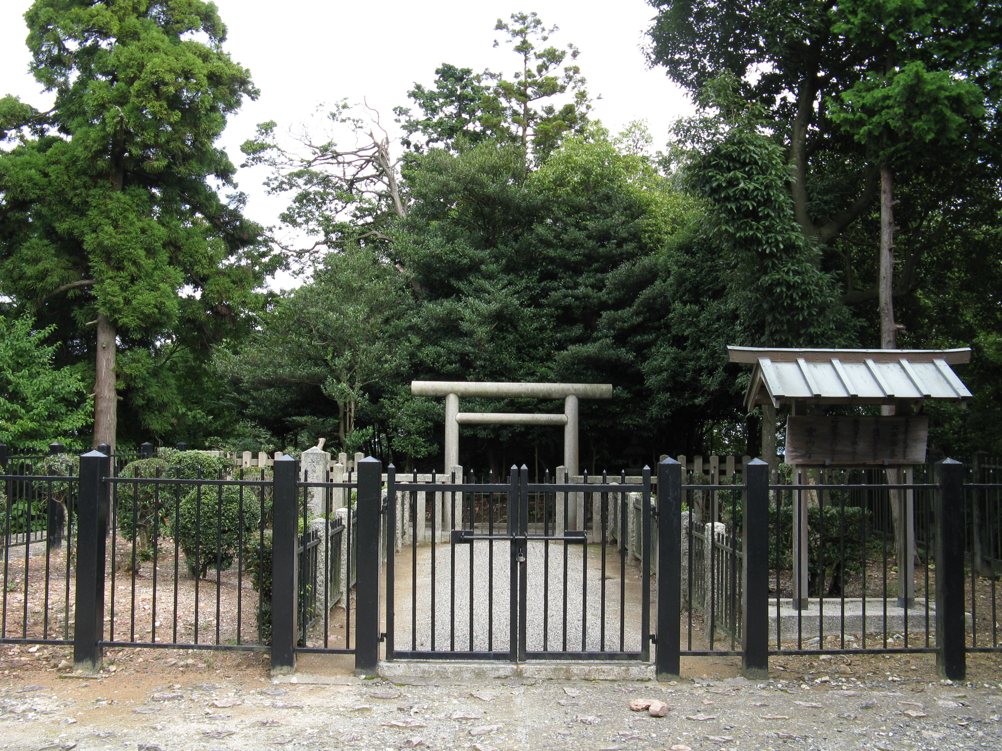 Tomb of prince Ōtsu(大津皇子) in Mount Nijyo(二上山).